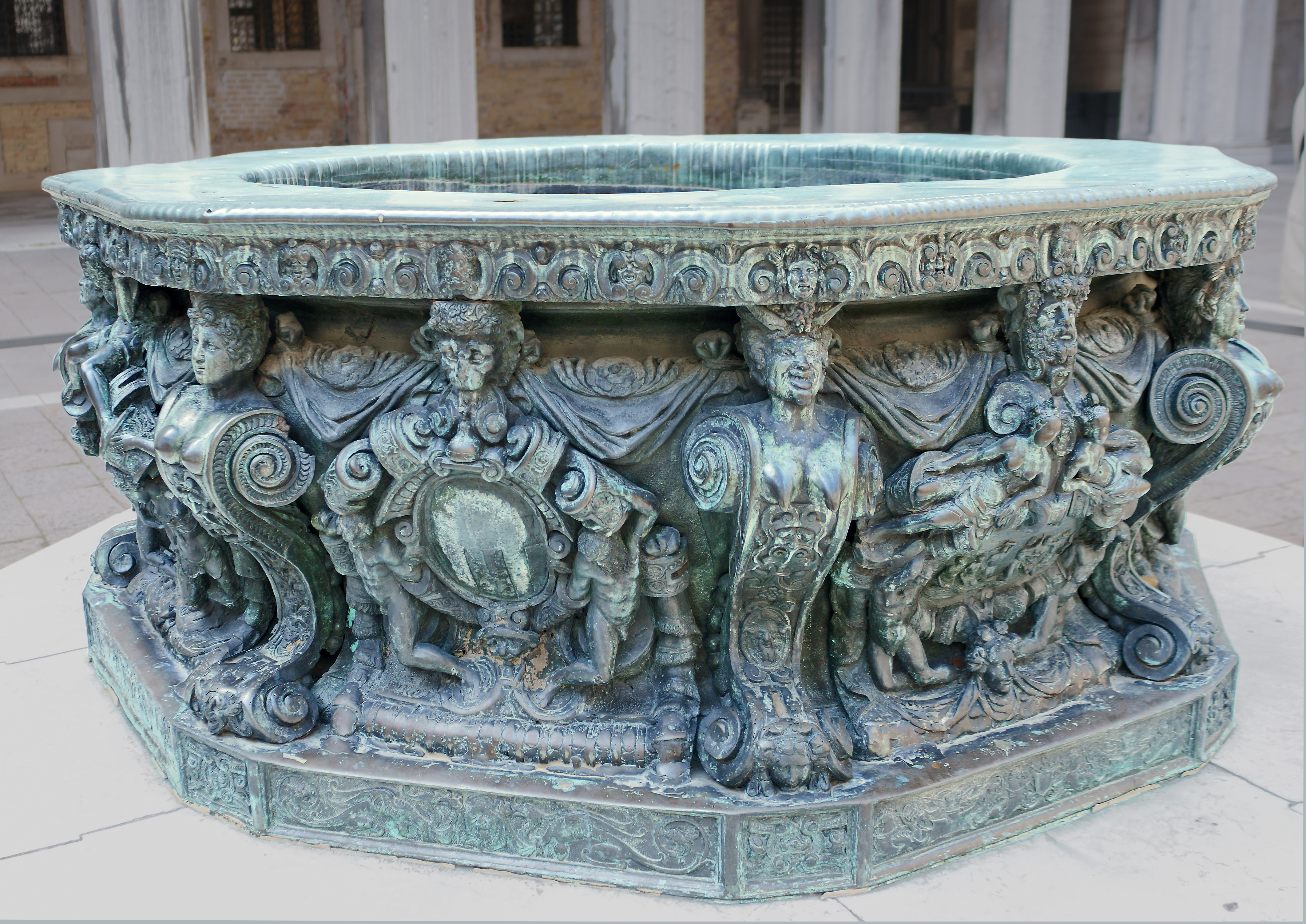 Courtyard of the Doge's Palace (Venice) - Wells (Circa 1555) smelter originale Alfonso Alberghetti